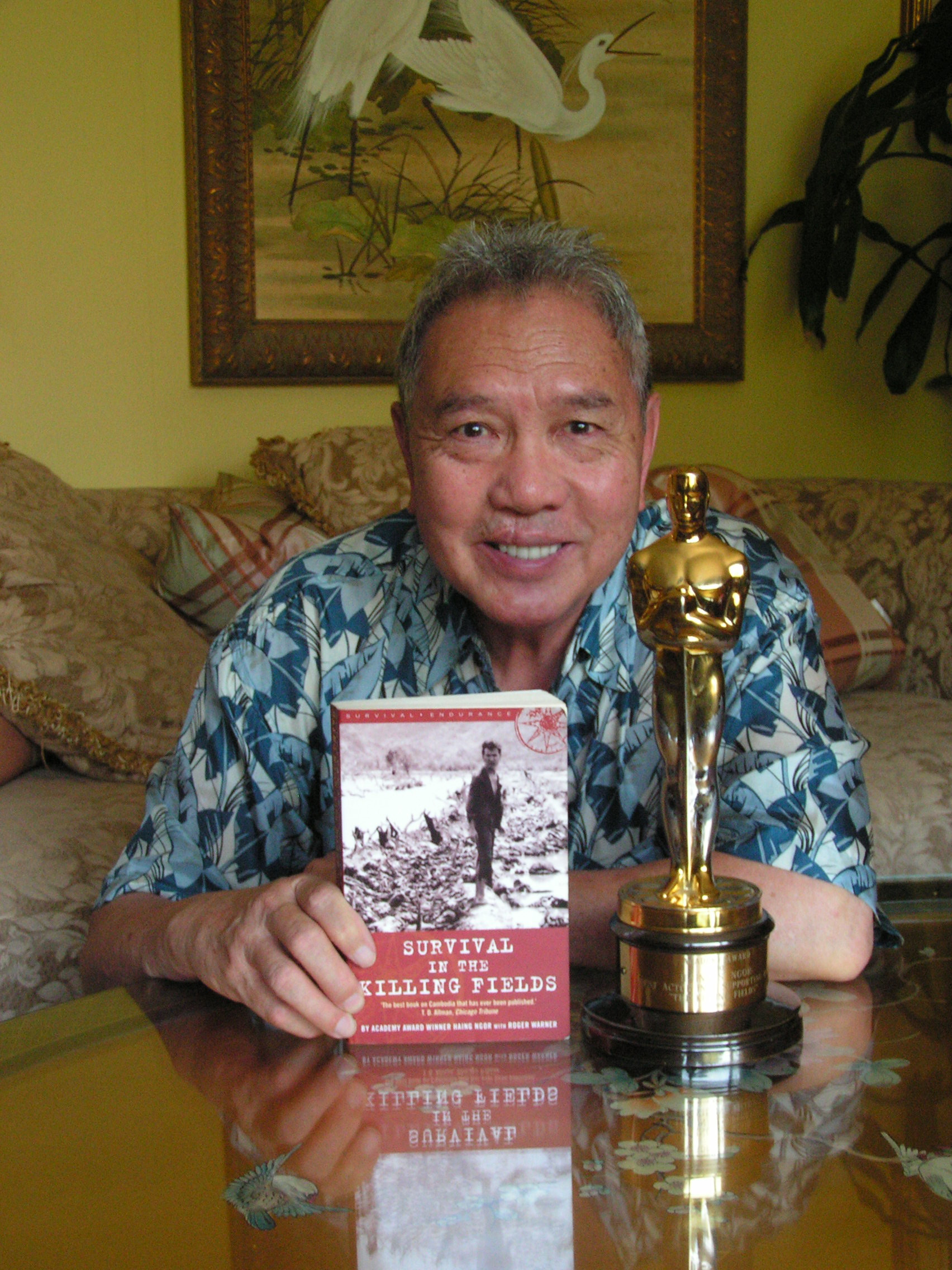 Jack Ong, Executive Director of The Dr. Haing S. Ngor Foundation, displays Dr. Ngor’s Best Supporting Actor Academy Award for “Killing Fields” and the recently published 2nd edition of the Ngor autobio, “Survival in the Killing Fields”